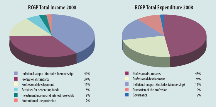 Pie chart showing RCGP income / expenditure for 2008.